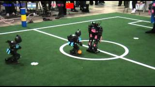 An image from the RoboCup 2012 competition in Mexico, where team RoBIU played against TH-MOS